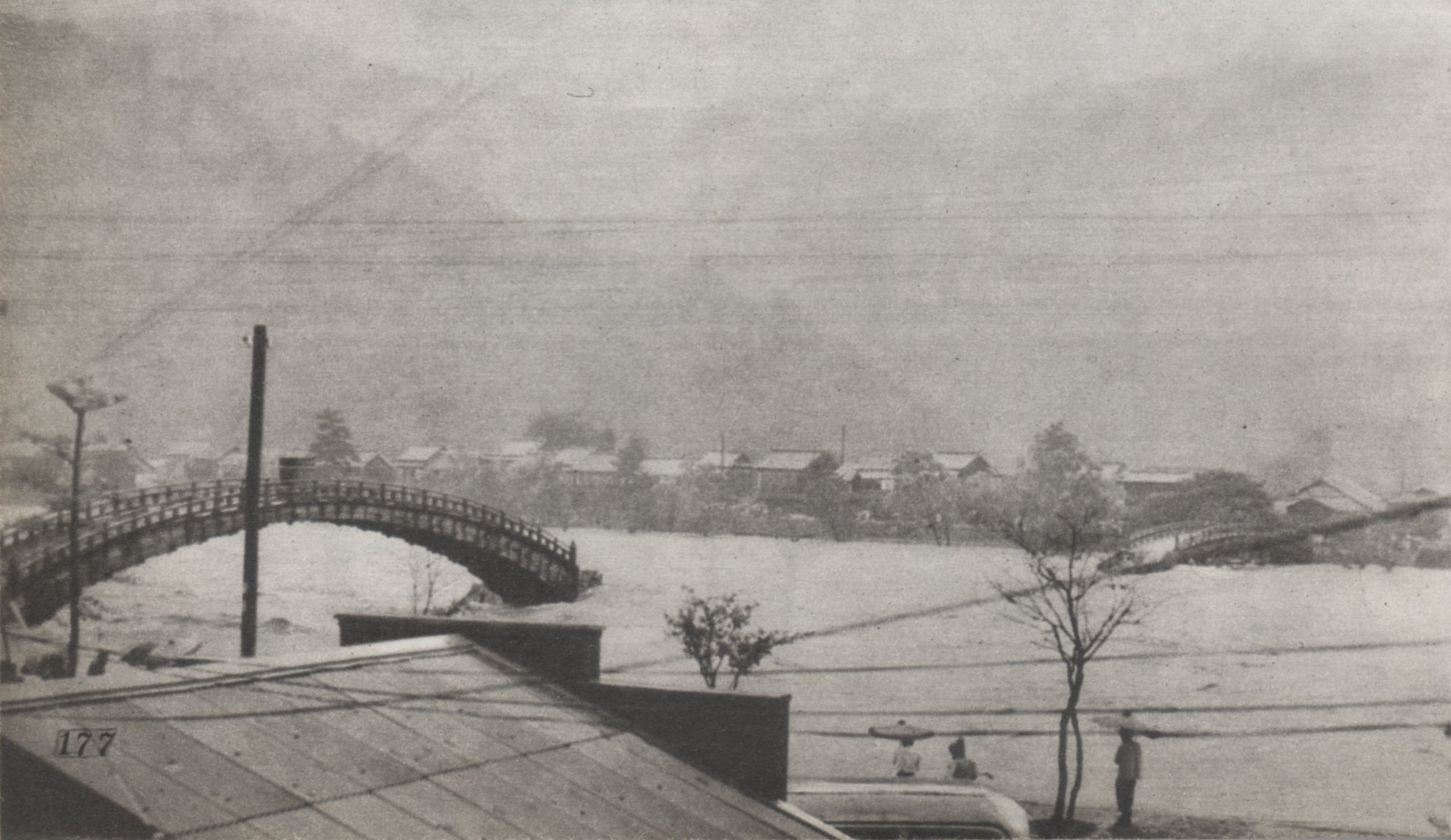 Destroyed Kintai-bridge (The damage caused by Kezia typhoon). Loc: Iwakuni city, Yamaguchi Prefecture, Japan. キジア台風で流失した錦帯橋（昭和25年9月14日）。 撮影場所 山口県岩国市